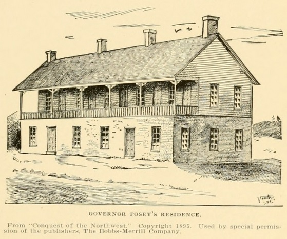 Residence of Indiana Territorial Governor Thomas Posey from 1813 to 1816 in Jeffersonville, Indiana. The building stood until approximately 1836.